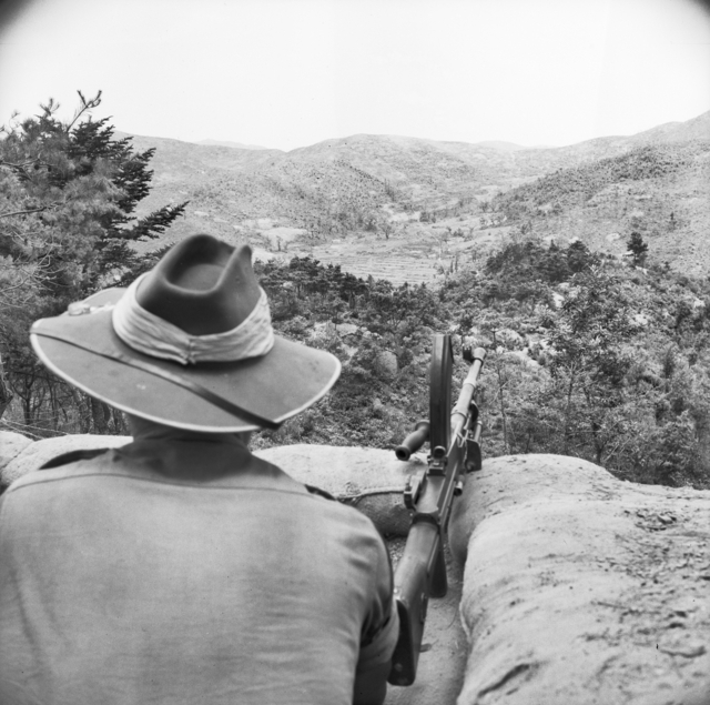 Korea. 16 July 1952. An unidentified Bren gunner from the 1st Battalion, The Royal Australian Regiment (1RAR), watches an enemy held hill in front of his position.